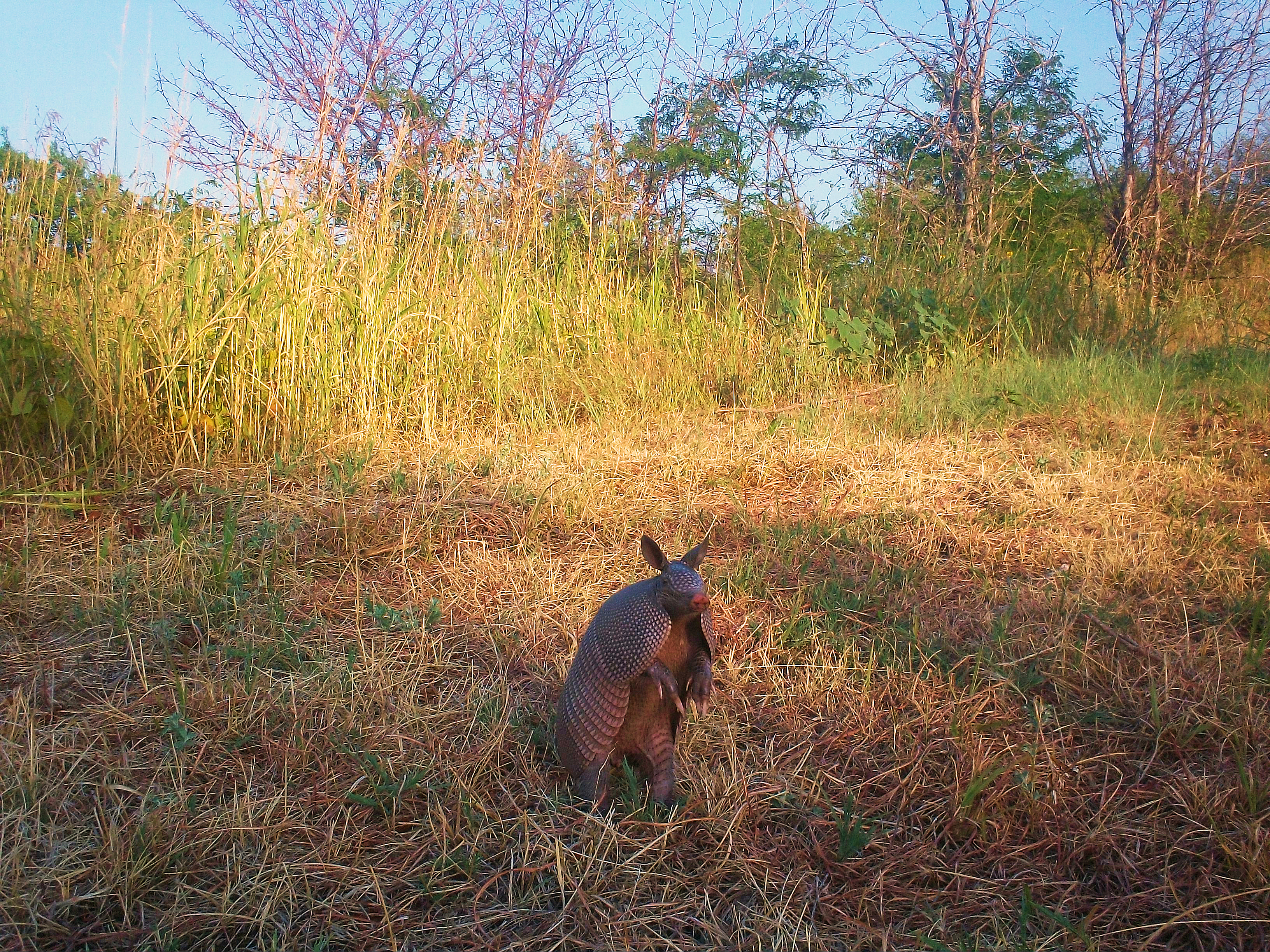 Armadillo on it's hind legs on the Campus of Oklahoma Baptist University